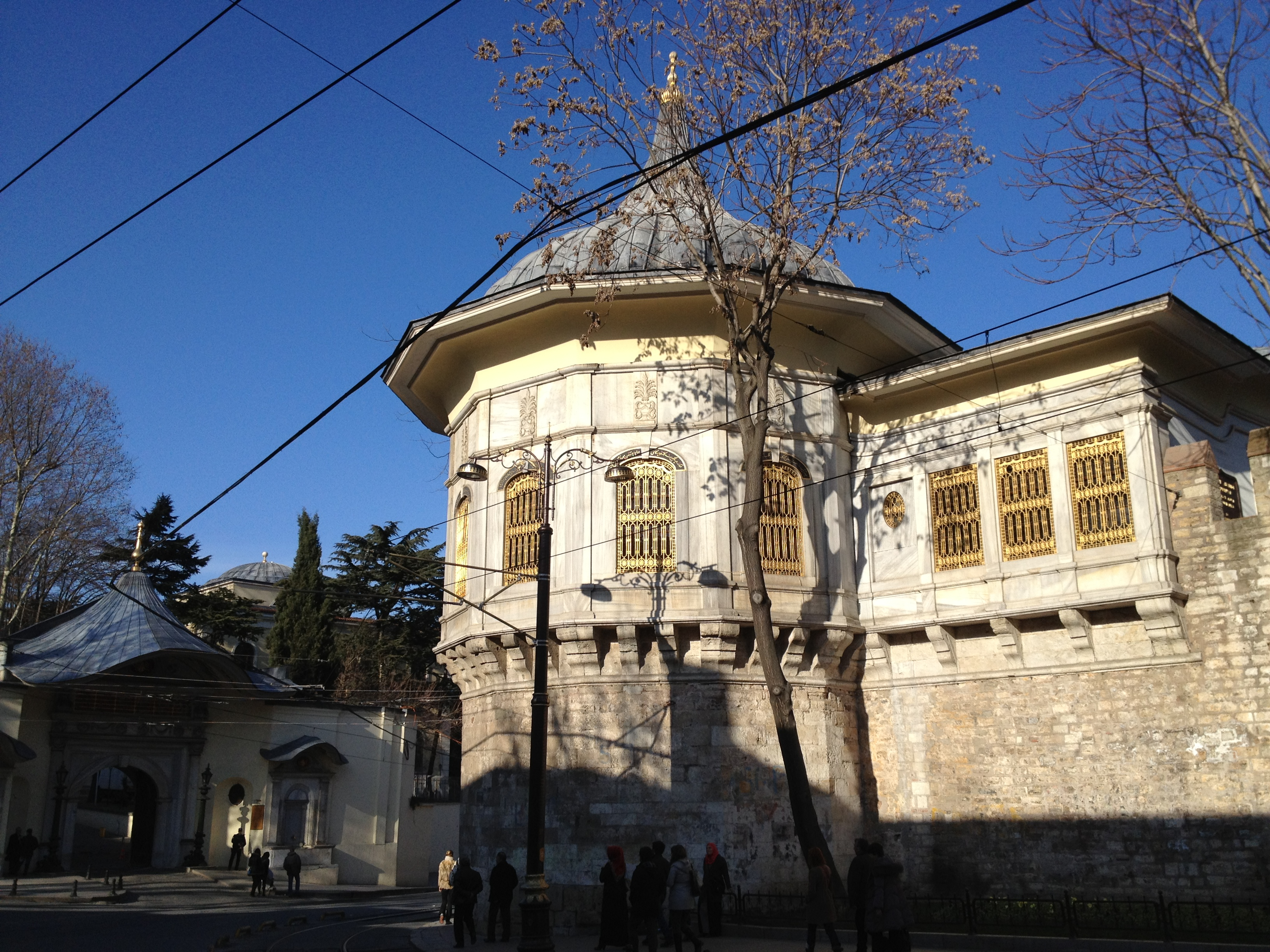 The Procession Kiosk at Gülhane Park, used by the sultan for viewing pleasures. After extensive renovations in 2007 reopened as coffee house. In the back the Sublime Porte can be seen.